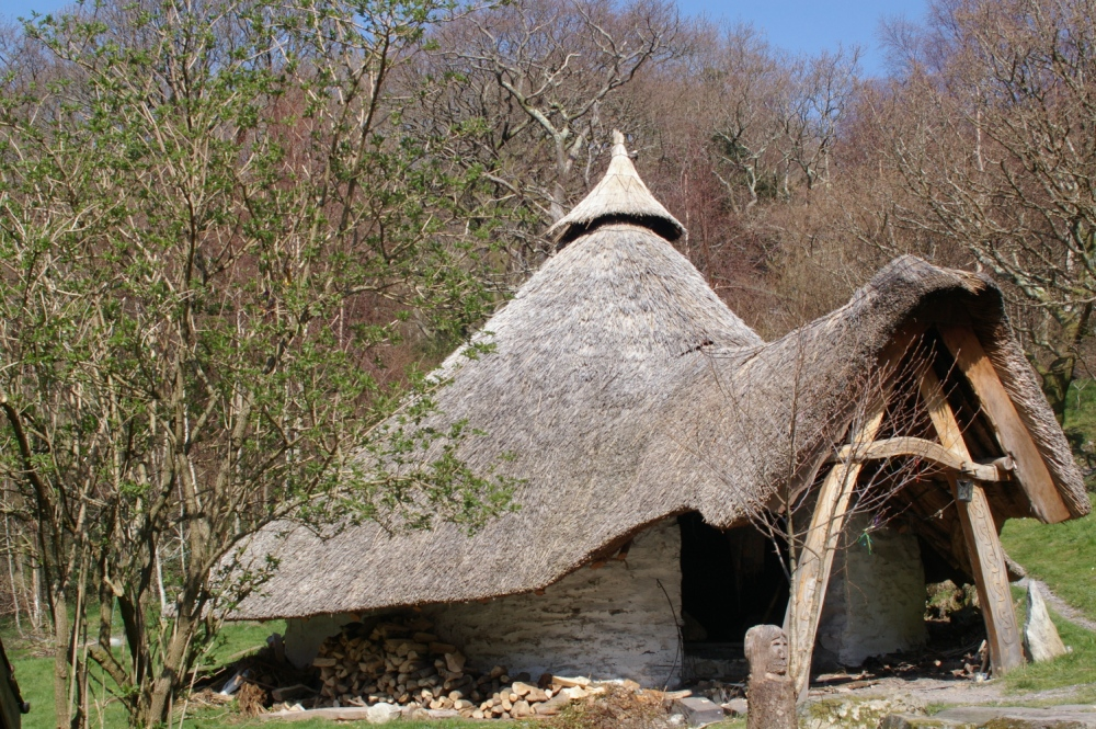 The Celtic round house at Cae Mabon